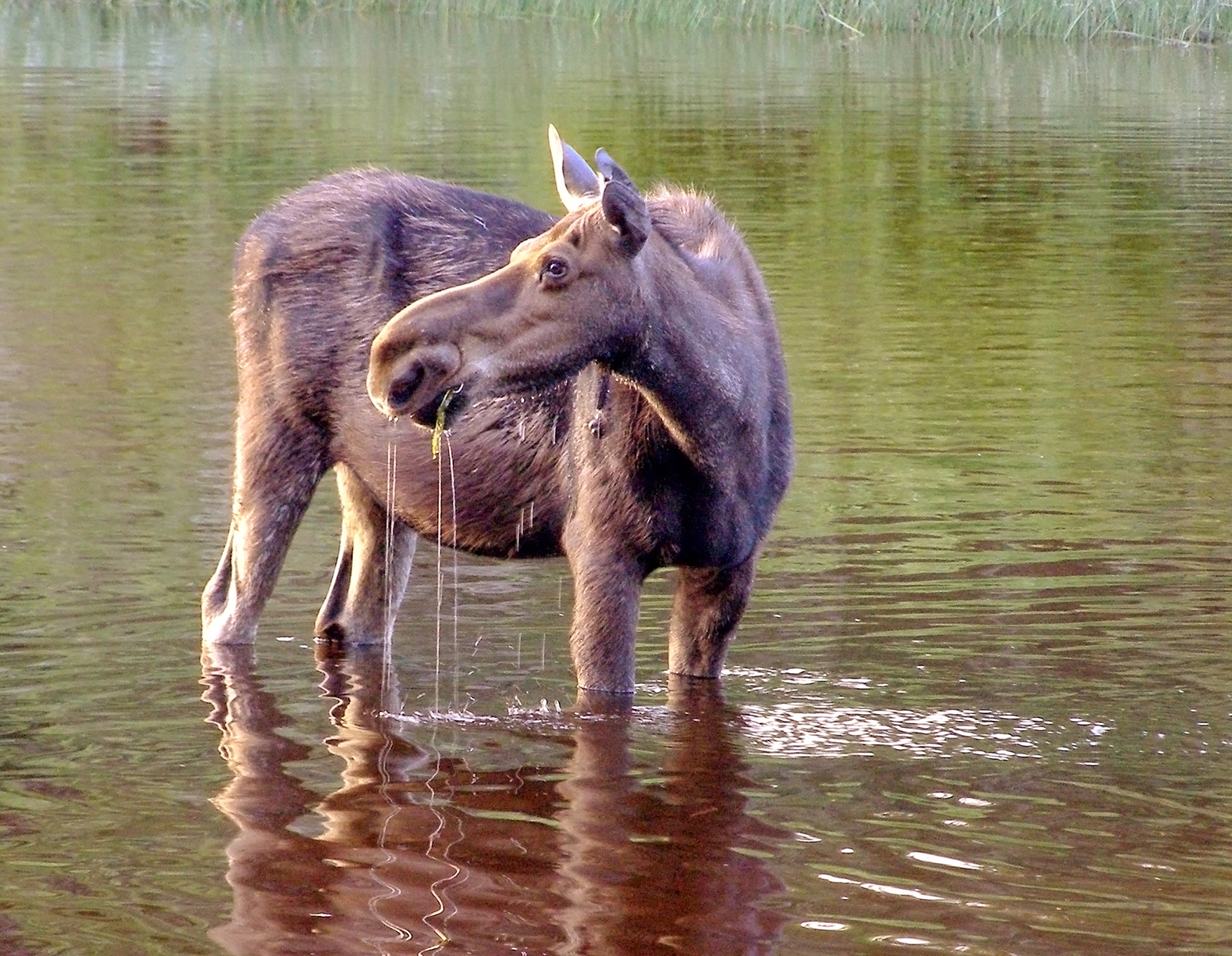 A moose grazing in Washington Creek, Isle Royale.